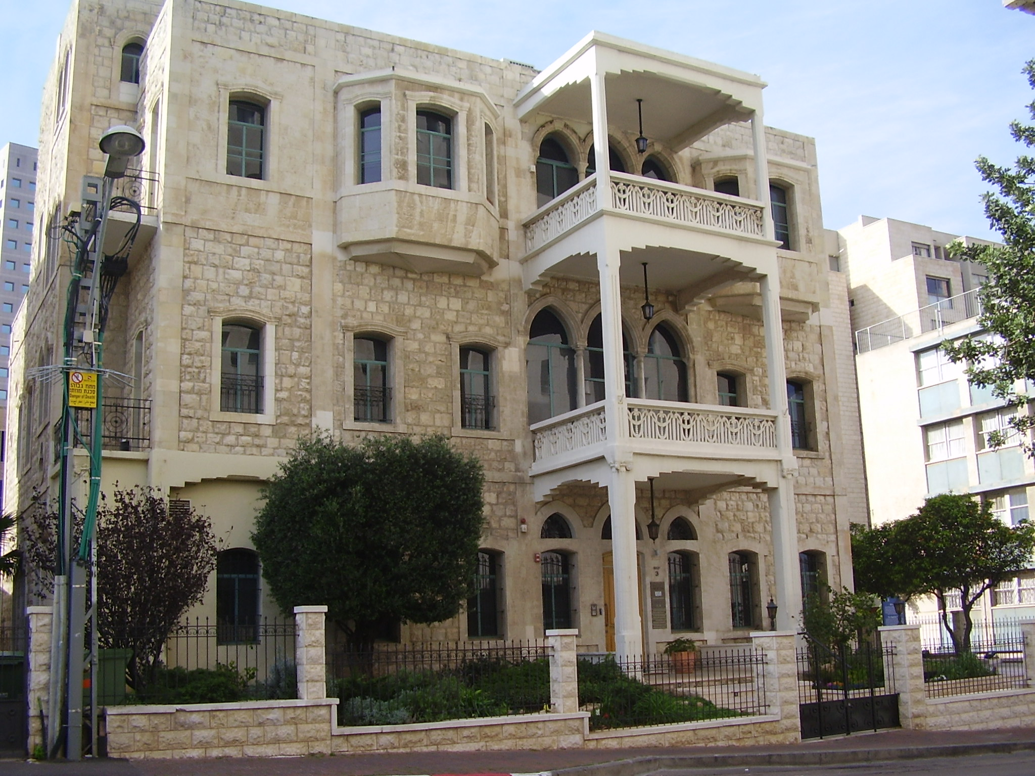 madjelani house in haifa